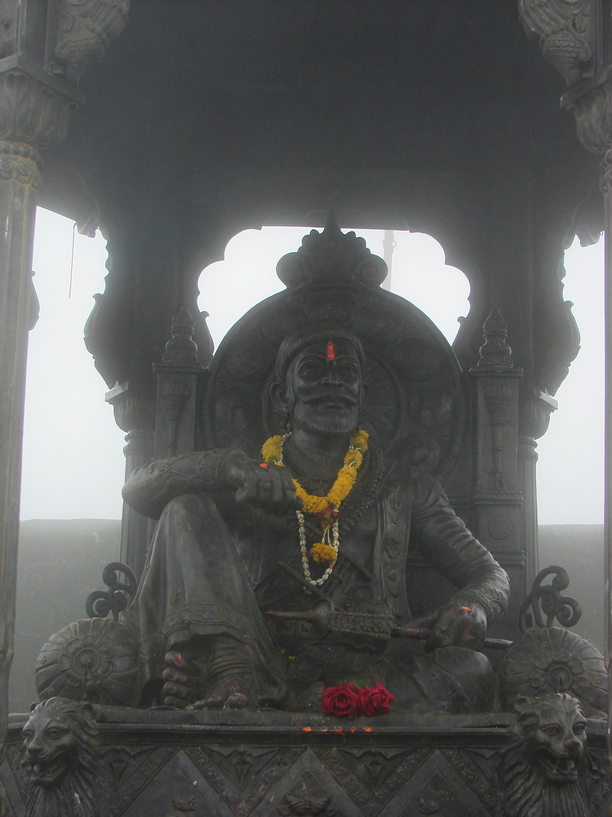 This the statue of Shivaji Maharaj on the place where His Rajyabhishek was done and he became "Maharaj"